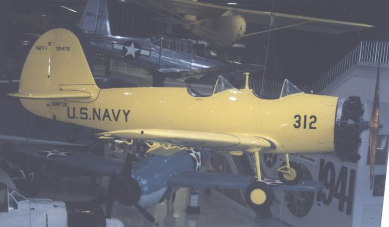 Timm N2T-1 US Navy trainer at Pensacola NAS